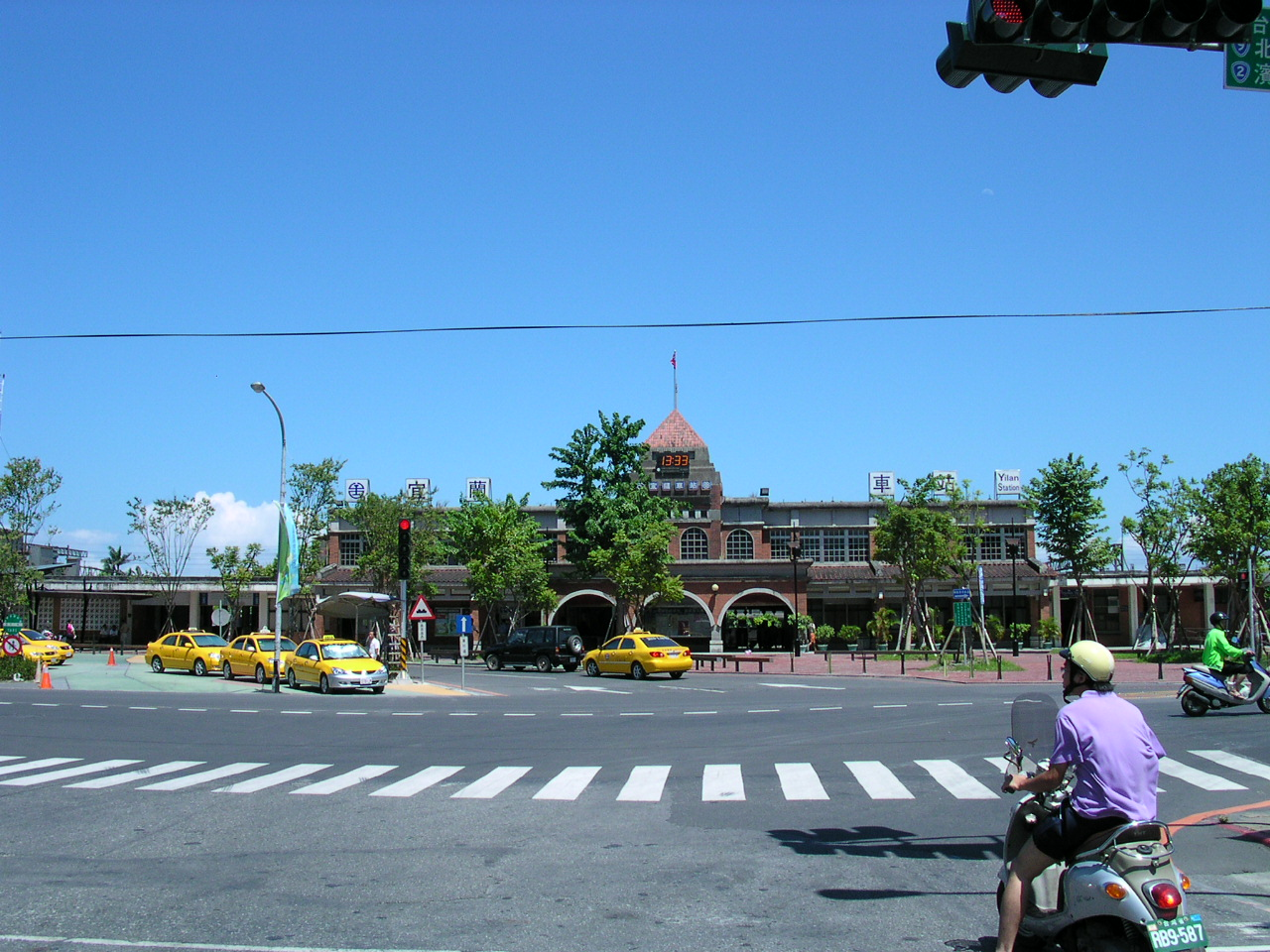 this photo taken by vegafish